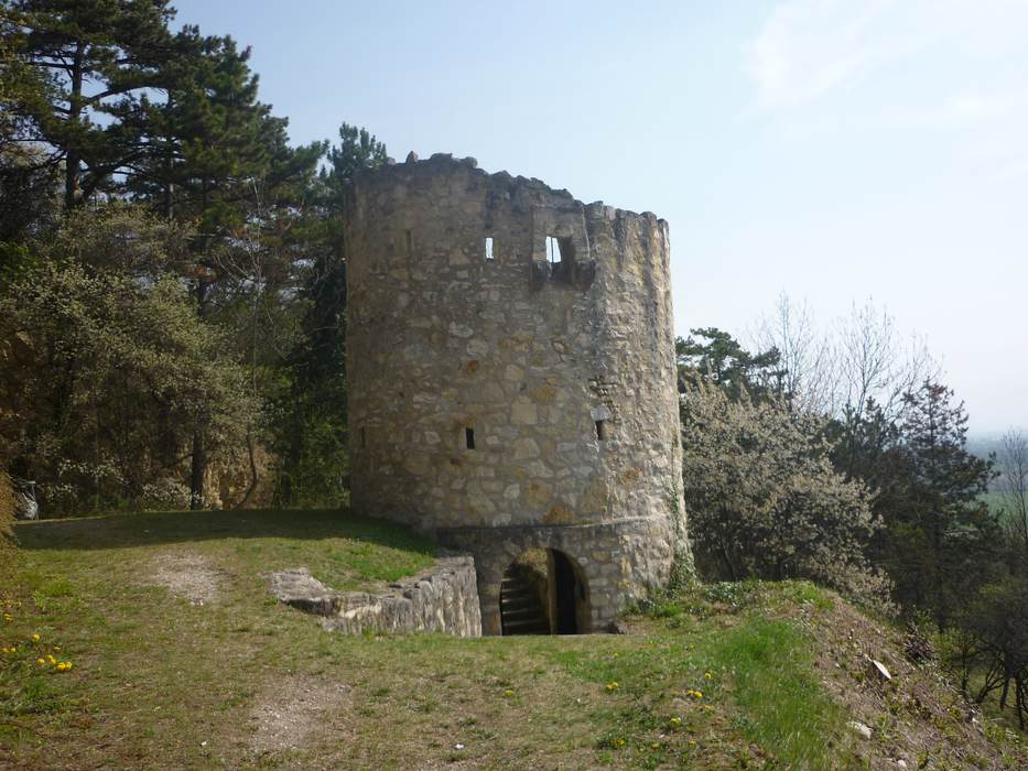 Höhlturm in lower Austria